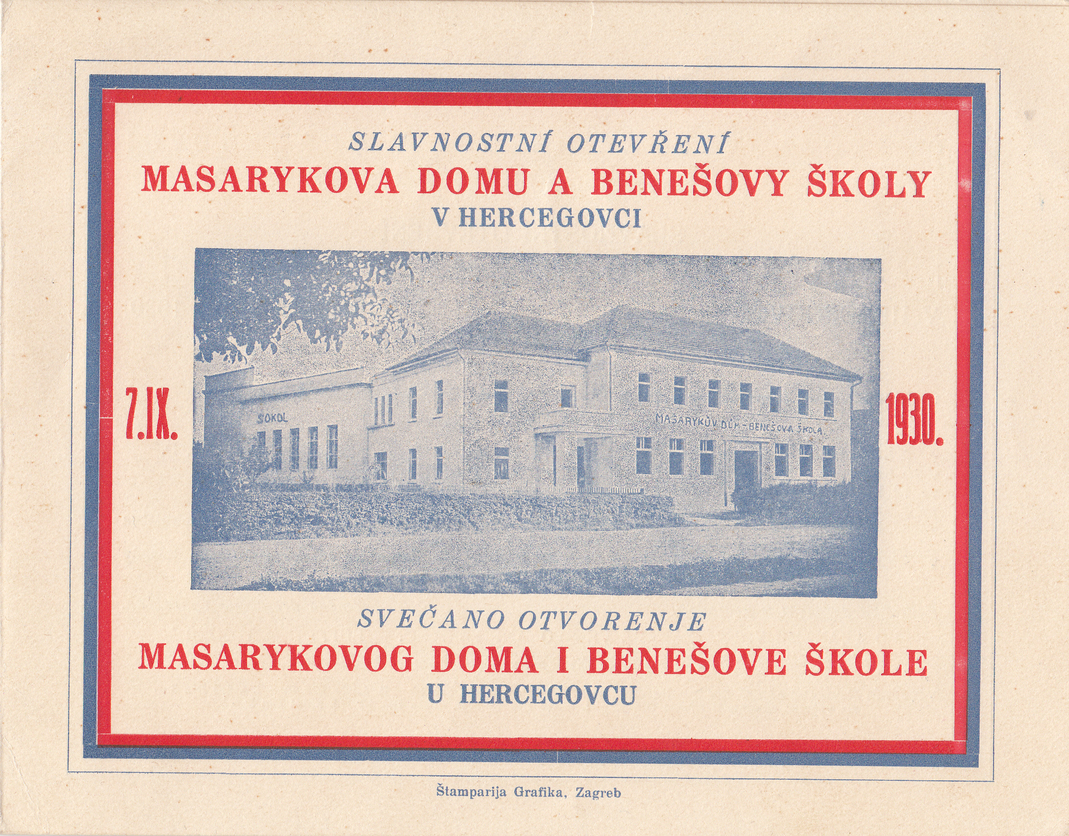 Invitation to the grand opening of the Masaryk's house and Beneš school in Hercegovac (Croatia) (1930). Inventory number 2173. Srpski (latinica): Pozivnica na svečano otvaranje Masarikovog doma i Benešove škole u Hercegovcu (Hrvatska) (1930). Inventarski broj 2173.